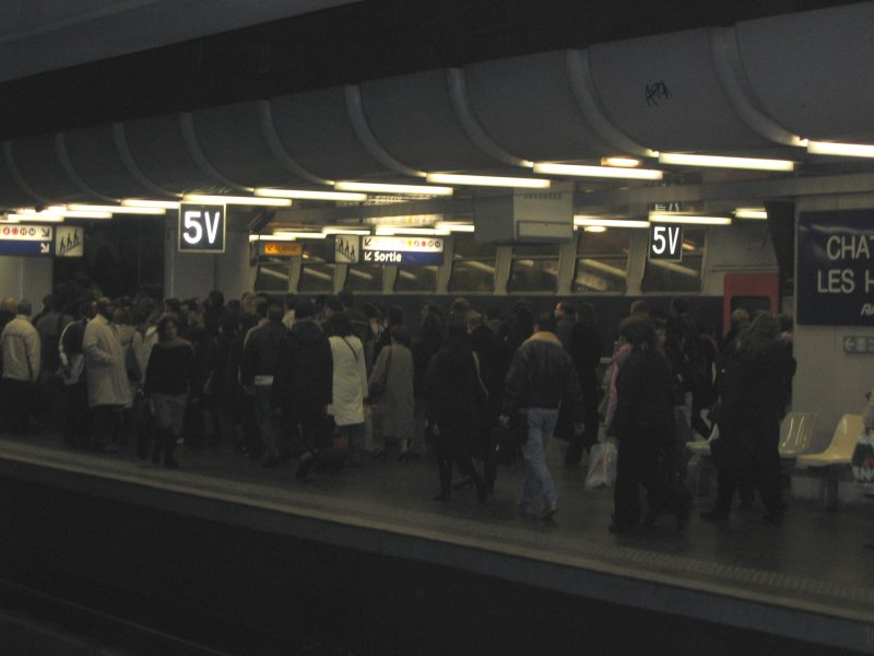 People leaving the RER D at Chatelet. (Author: Metropolitan)